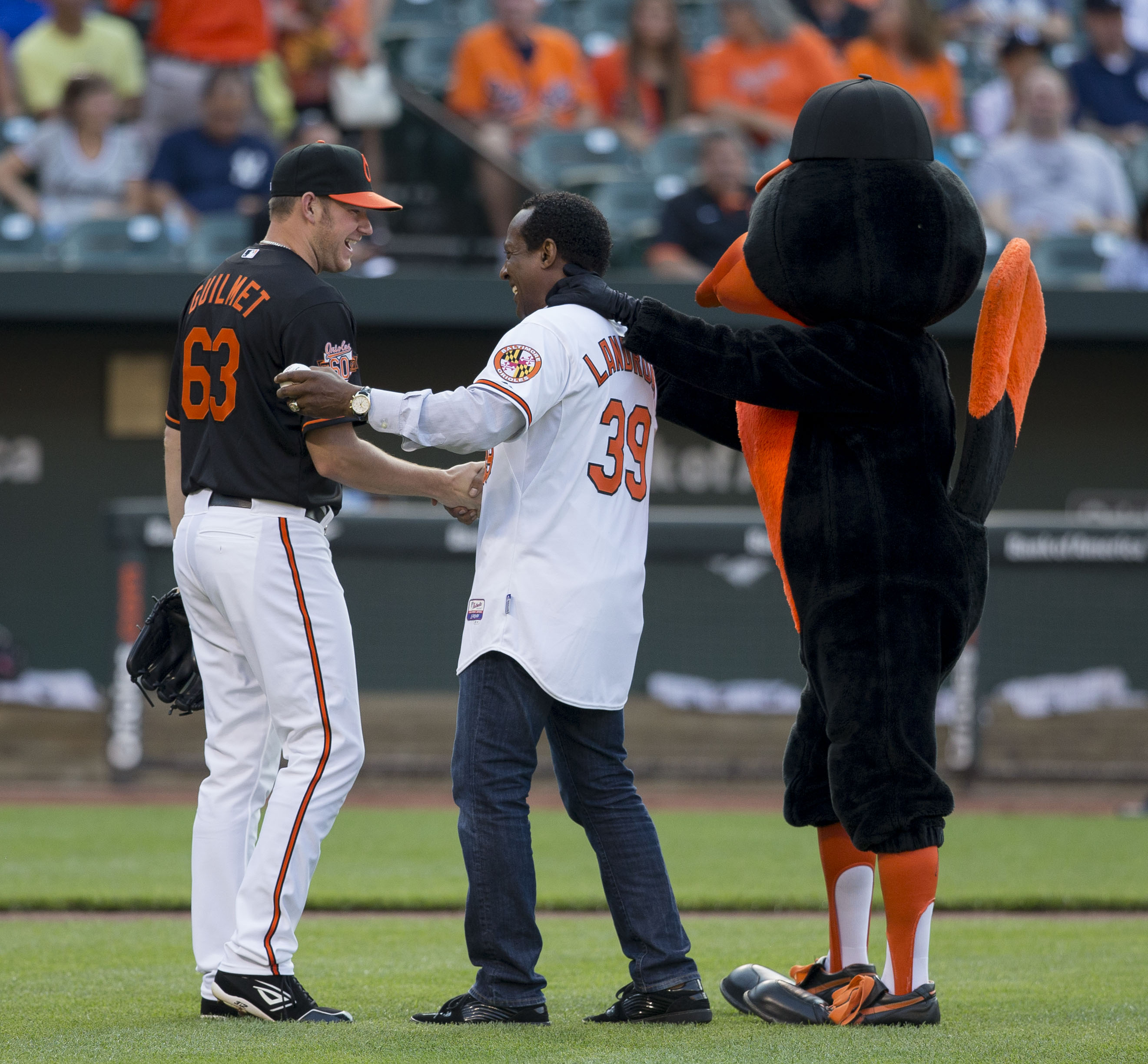 Preston Guilmet, Tito Landrum and the Oriole Bird at Camden Yards during a game against the New York Yankees on July 11, 2014